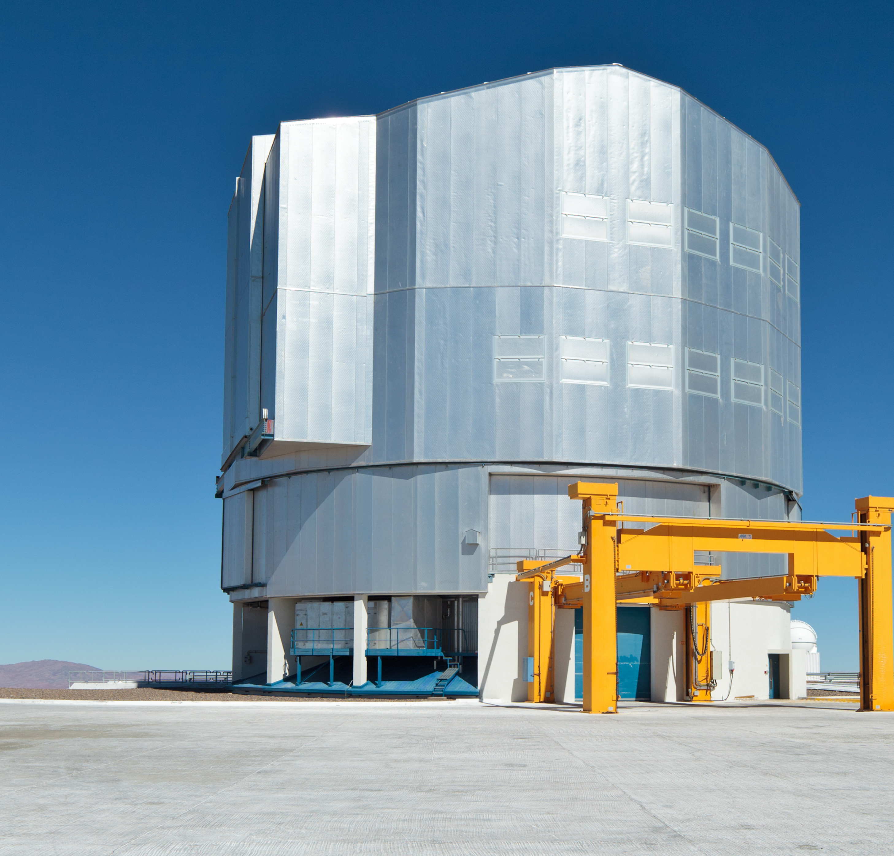 This is the present-day image from the Then and Now comparison Picture of the Week: From Antu to Yepun — The construction of the VLT